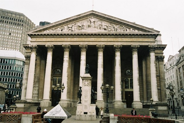 City of London: The Royal Exchange